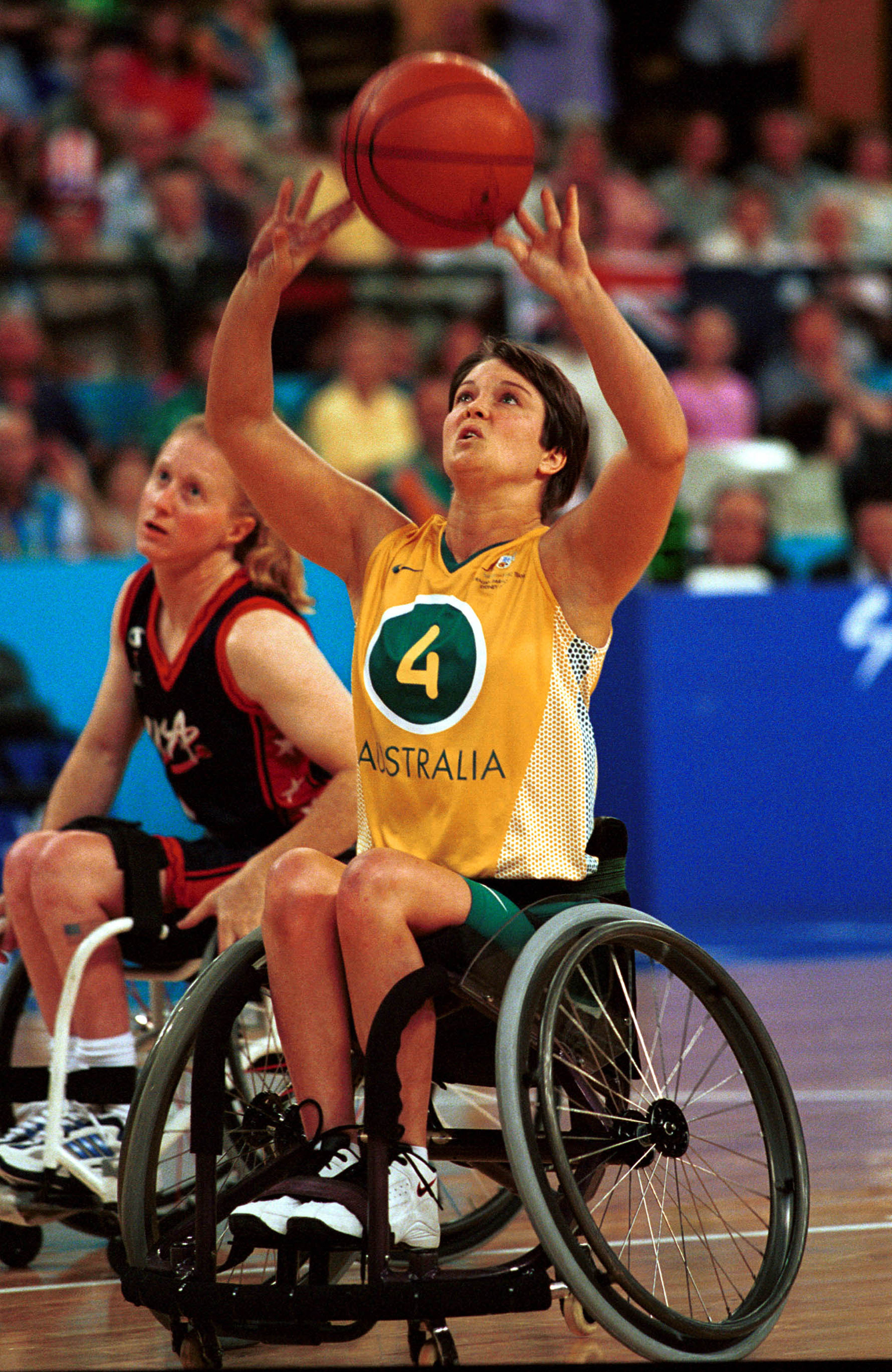 Australian wheelchair basketballer Julianne Adams shoots during 2000 Sydney Paralympic Games match